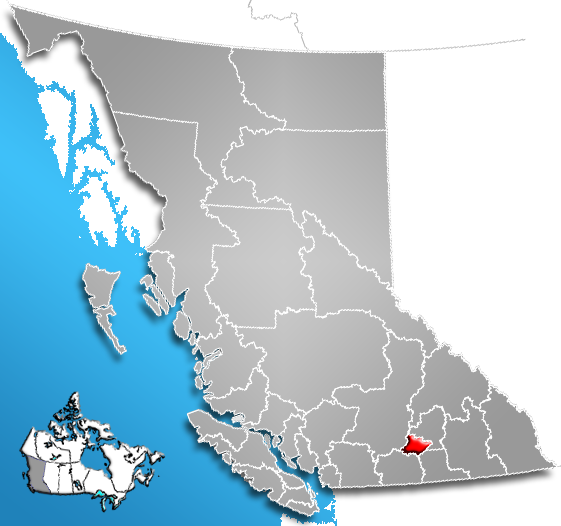 Location of Regional District of Central Okanagan, British Columbia